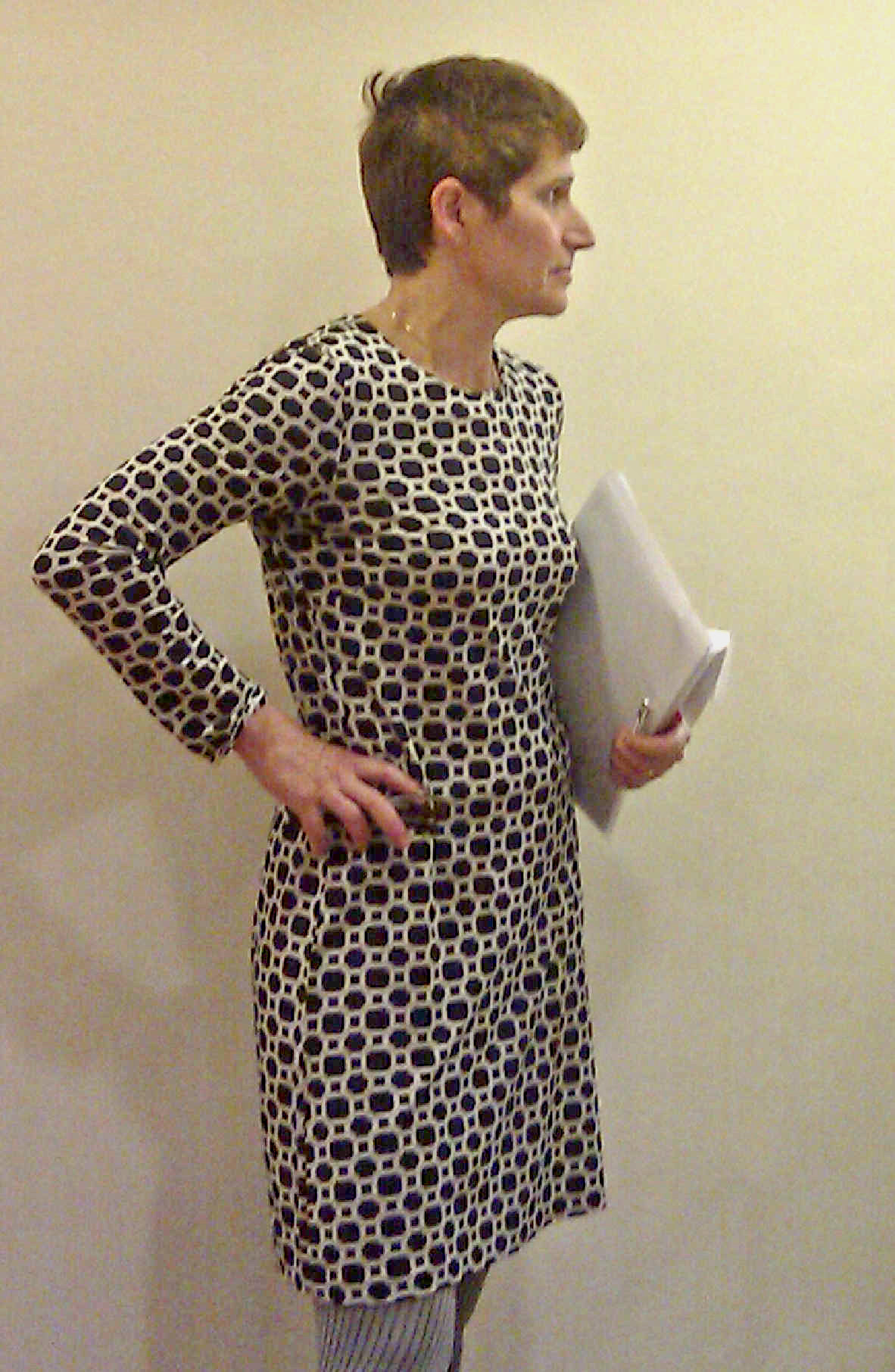 Clare Gerada 2011